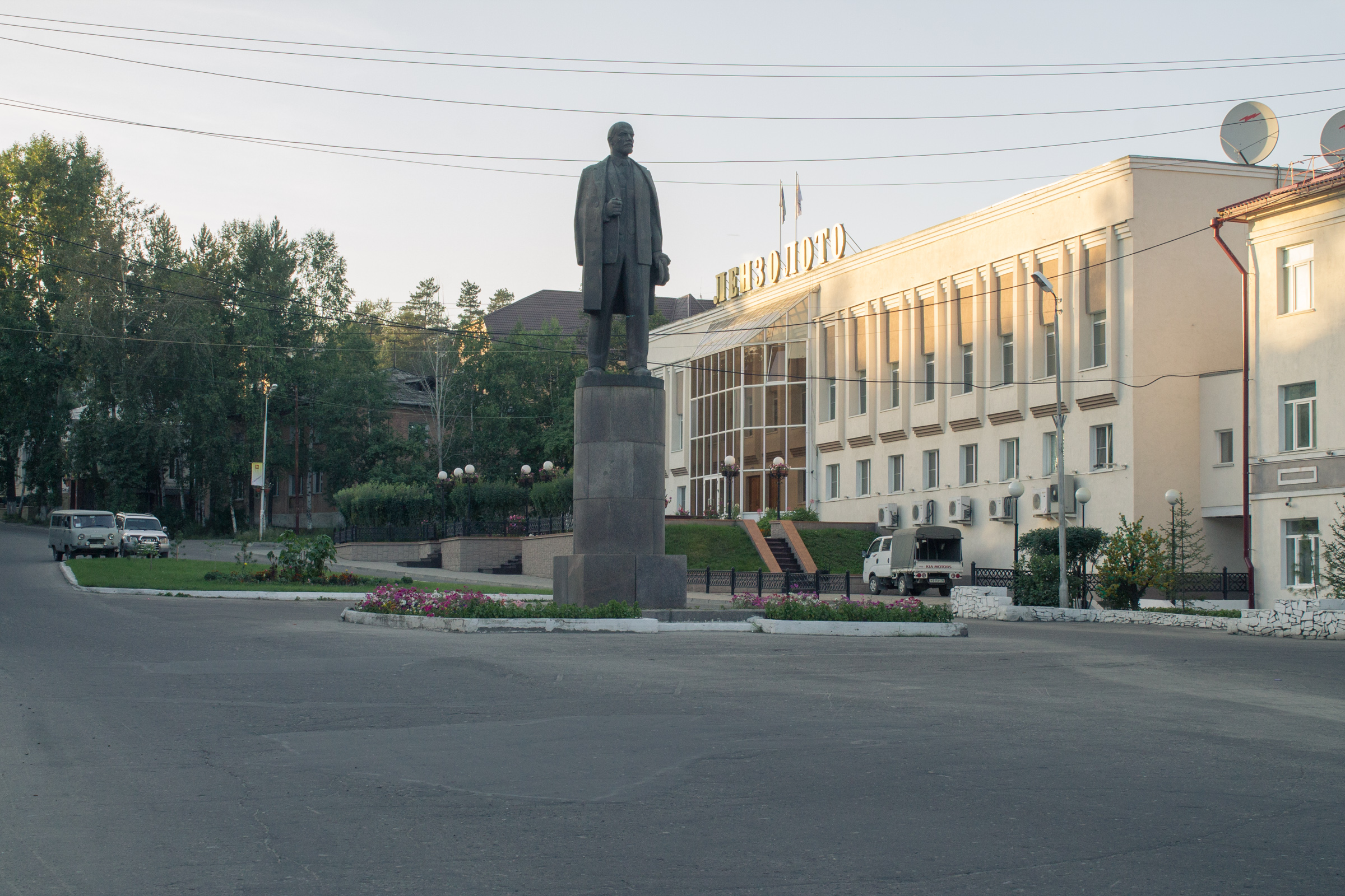 Памятник Ленину